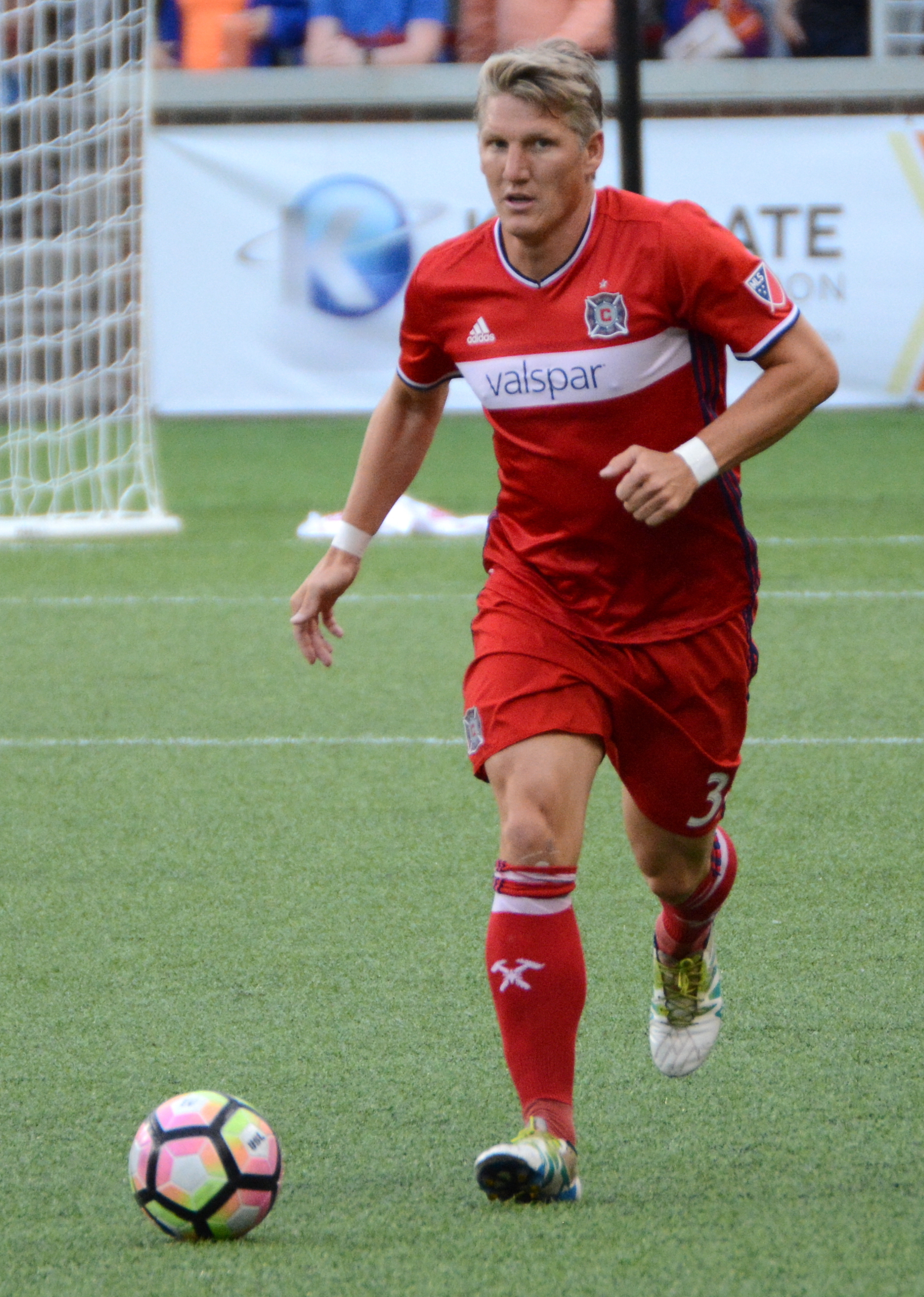 Taken at a U.S. Open Cup match between FC Cincinnati and Chicago Fire SC at Nippert Stadium in Cincinnati, Ohio on June 28, 2017.